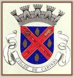 Coat of arms of Cabinda, Angola